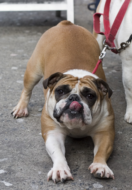 Bulldog in New York